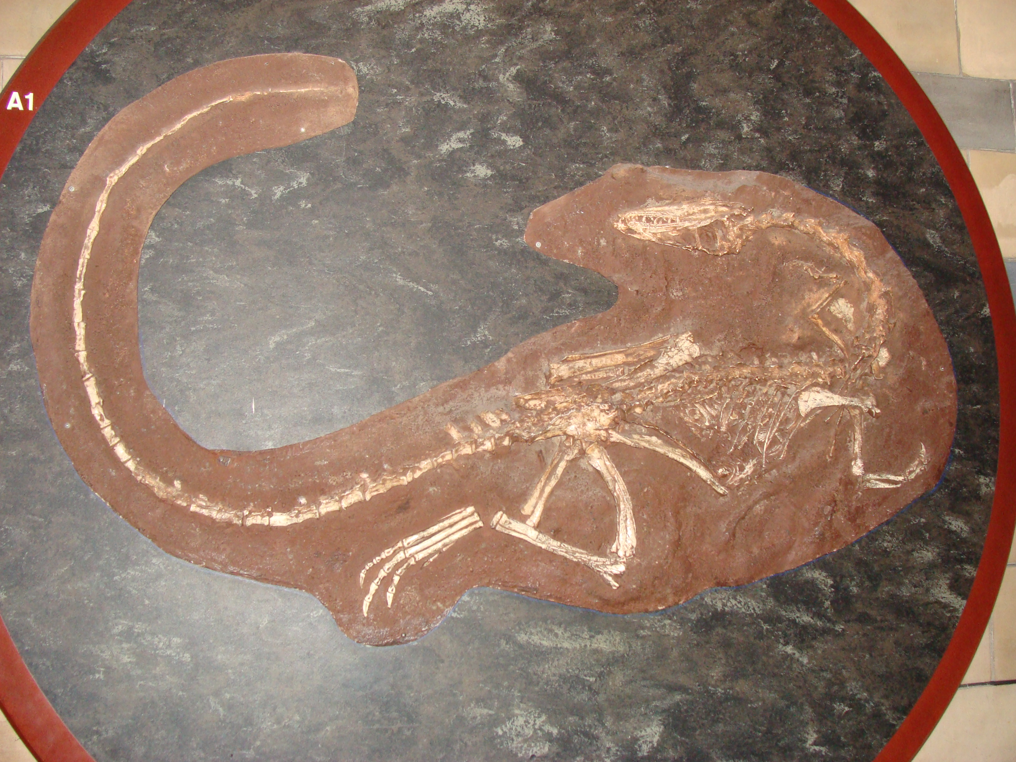 Coelophysis in the Natural History Museum of London